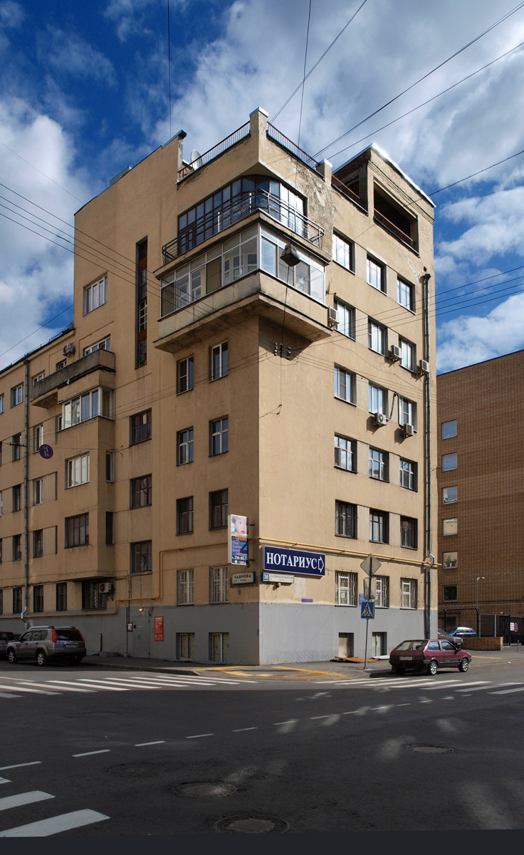 Corner of Second Tverskaya-Yamskaya and Chayanova streets in Moscow